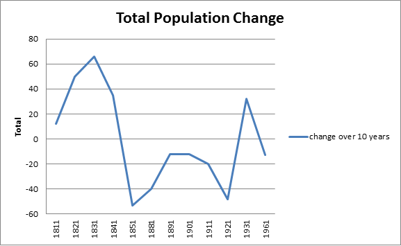 Population change shown between 1801 and 1961 in Fenny Bentley.